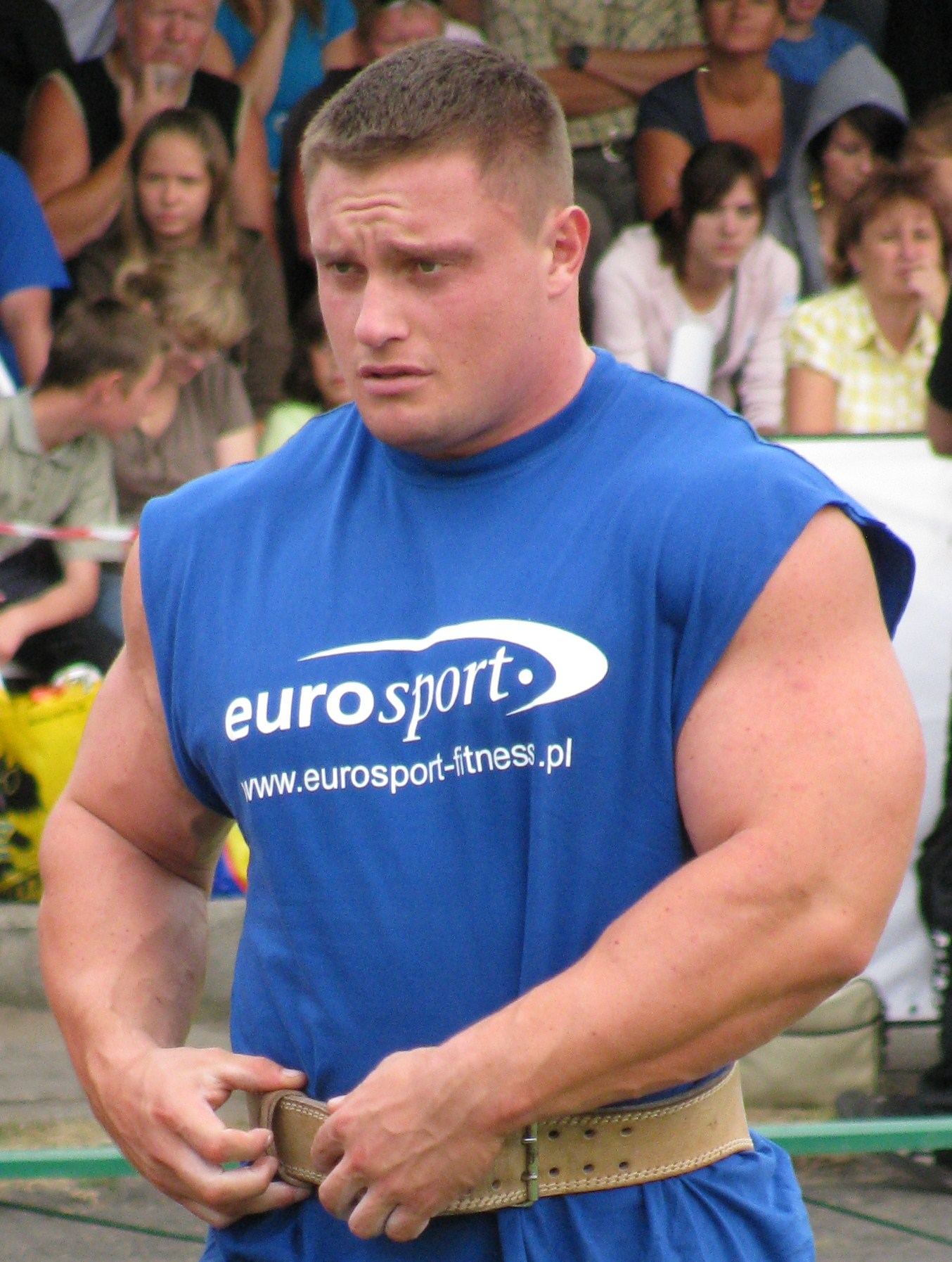 Krzysztof Radzikowski - a strength athlete from Poland.